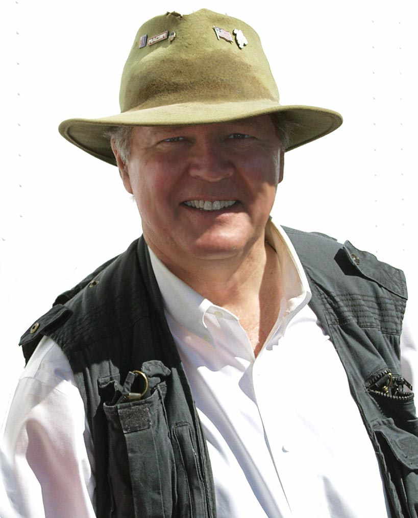 This is a photograph I shot in 2003 of Peter Brock at Monterey Historic Races/Laguna Seca raceway. Peter was the designer of the legendary Shelby Daytona Coupe (in 1964), and today is a race car driver and photojournalist. The photograph belongs to me, so there is no copyright issue. I'm submitting it for wiki's web page that features this ("disambiguated') Peter Brock. Curt Scott